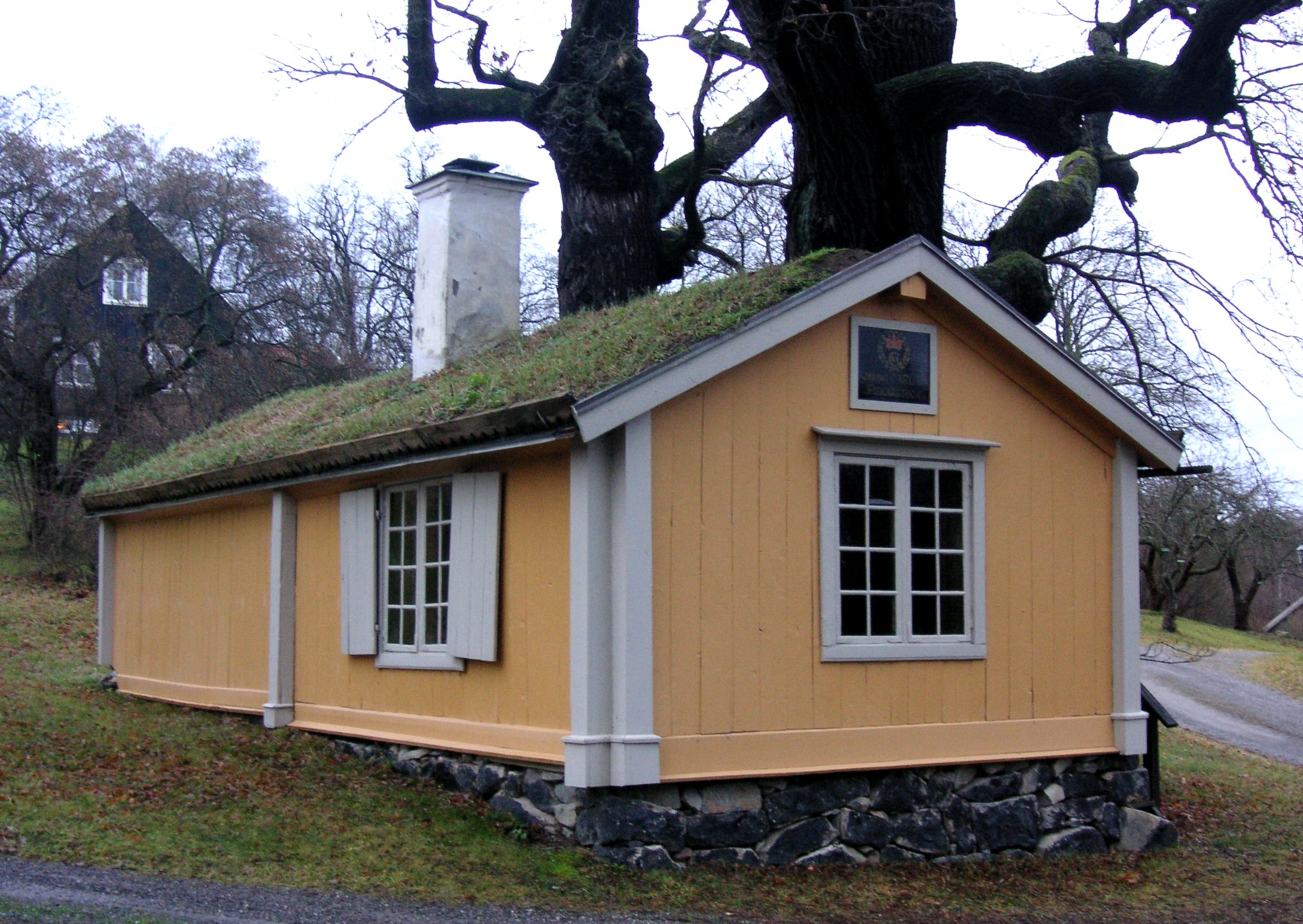 Karl XI´s fishing cottage on Norra Djurgården from 1680, Ekoparkens oldest building